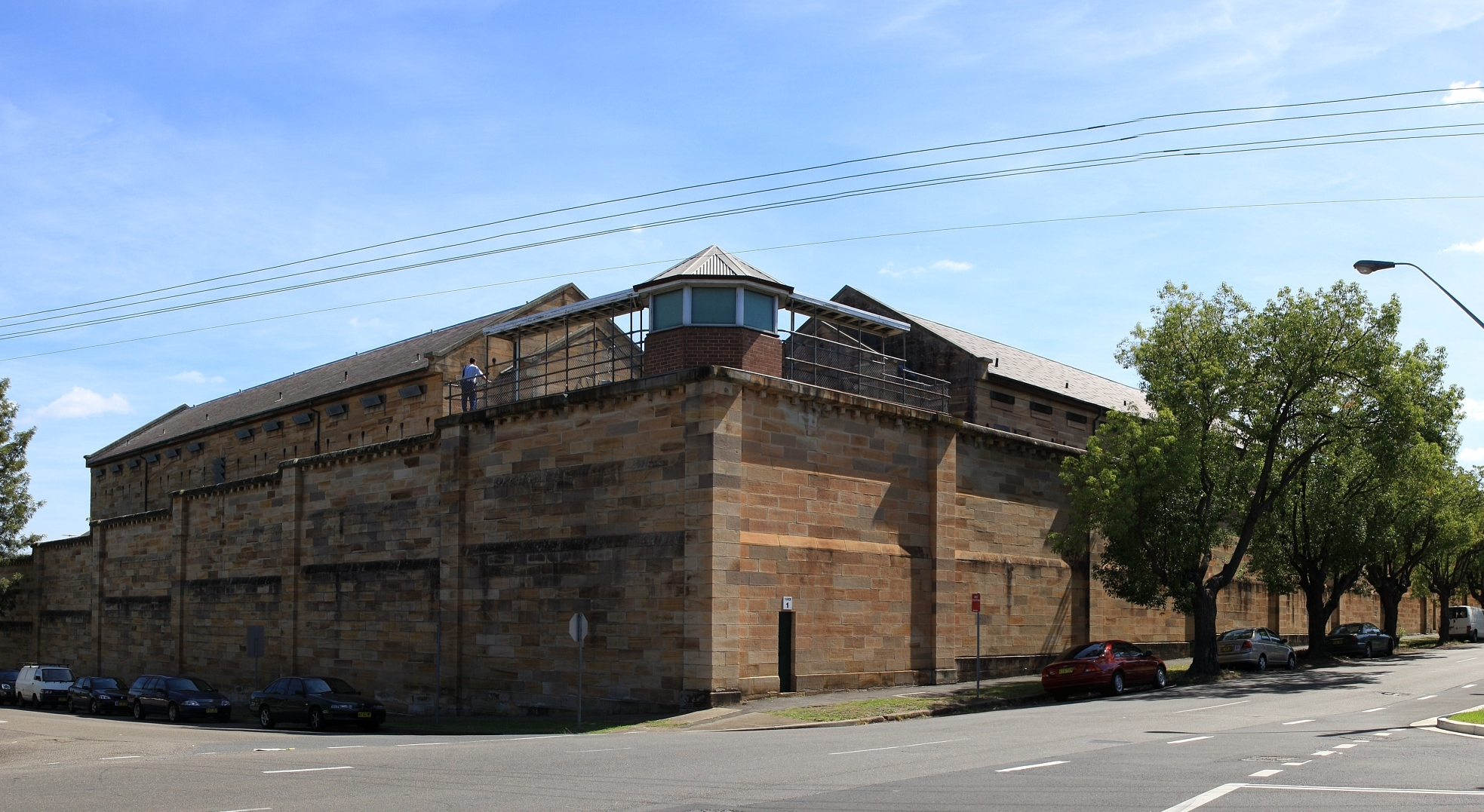 Parramatta Jail